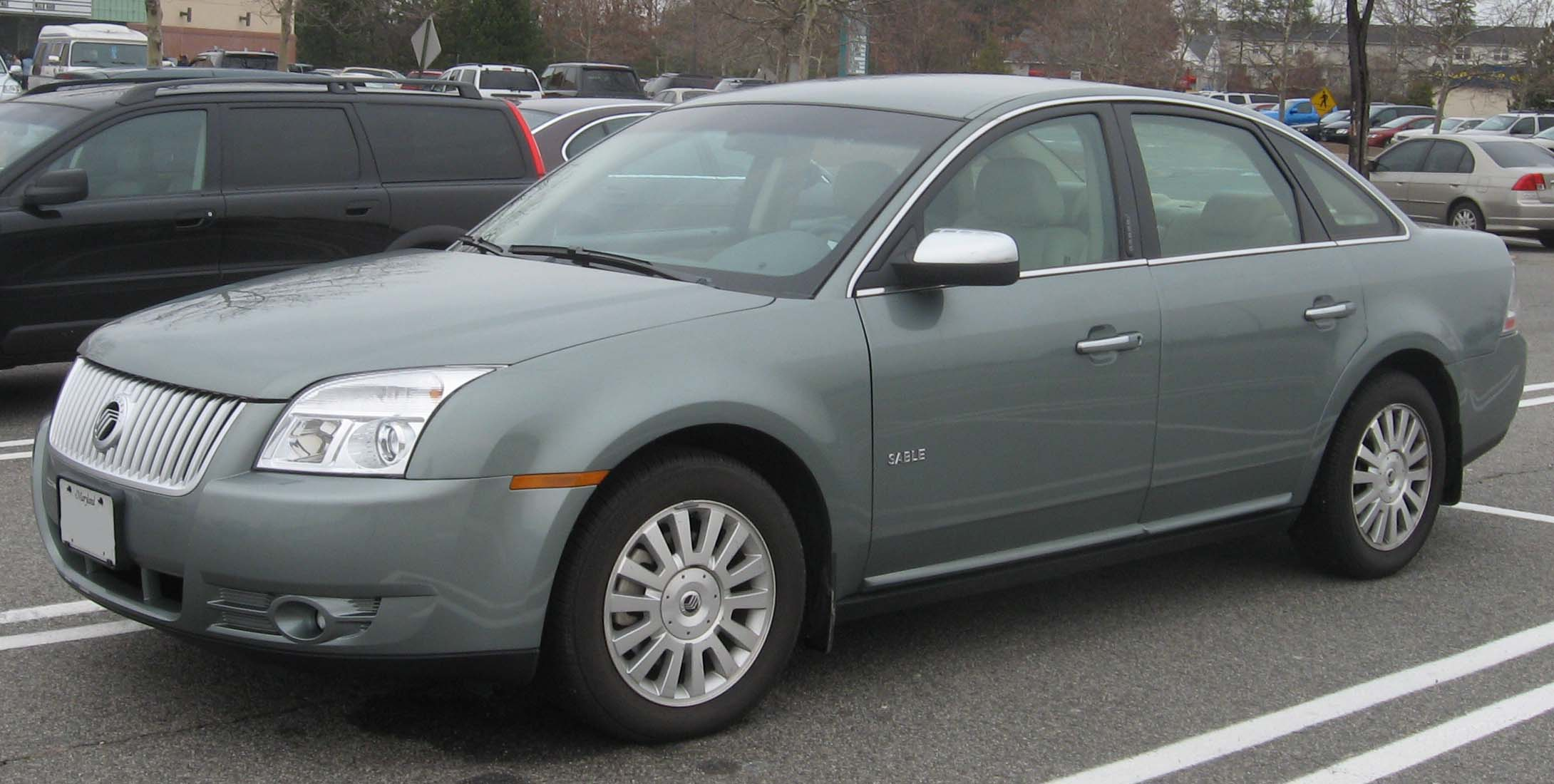 2008 Mercury Sable photographed in Waldorf, Maryland, USA.